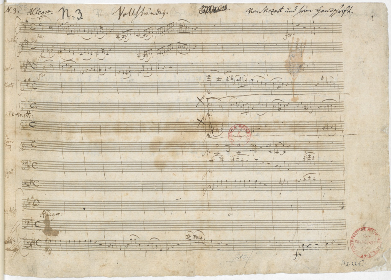 The opening page of Wolfgang Amadeus Mozart's Piano Concerto No. 23 in A major, K. 488. Image scanned by the Bibliothèque nationale de France.